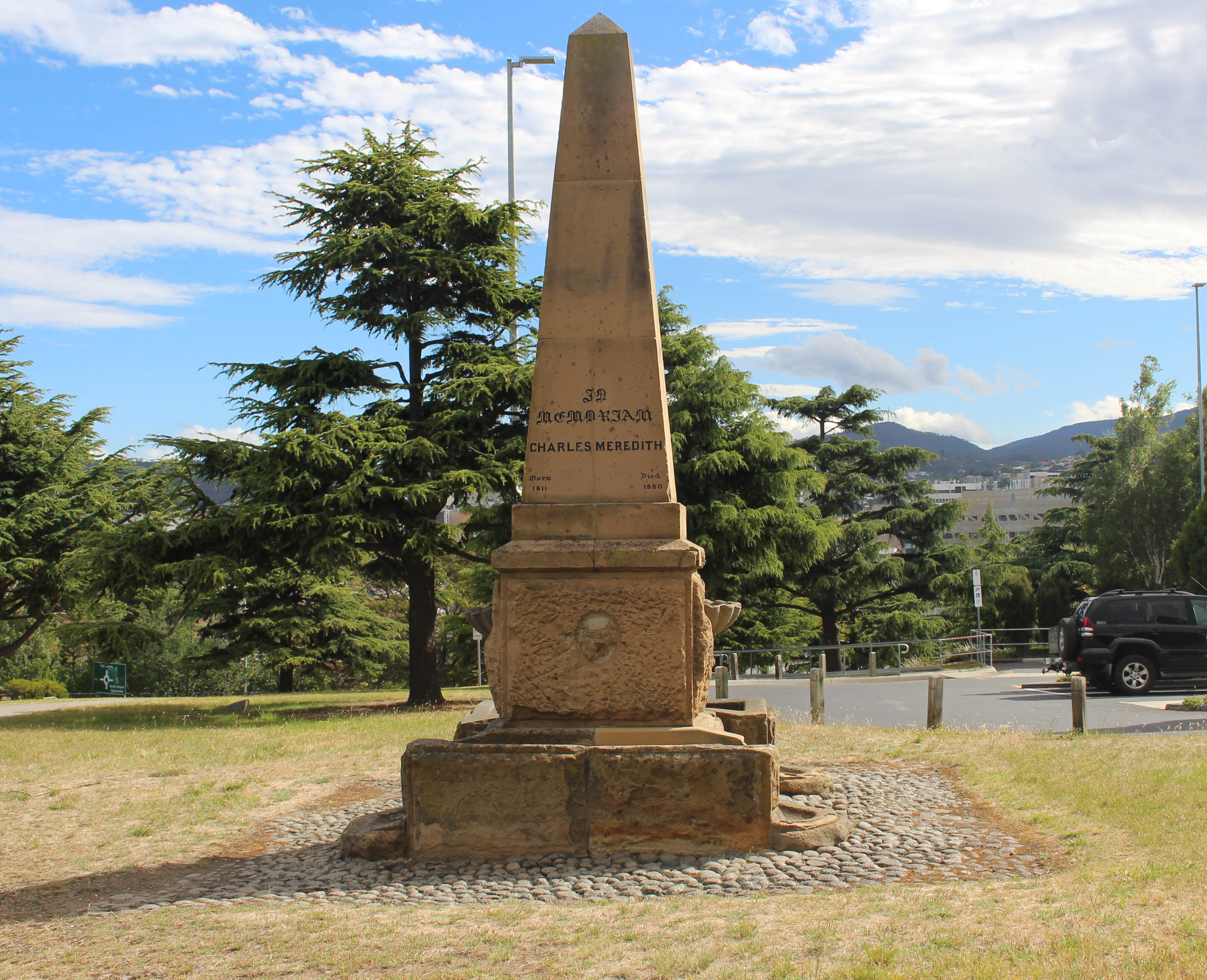 The Charles Meredith Monument Fountain. This Monument with a non-functioning fountain commemorates politician, Charles Meredith, who represented Hobart Town in 1861-62. The actual erection date for this memorial was on Friday 27th November 1885. The location is at Queens Domain in Hobart.